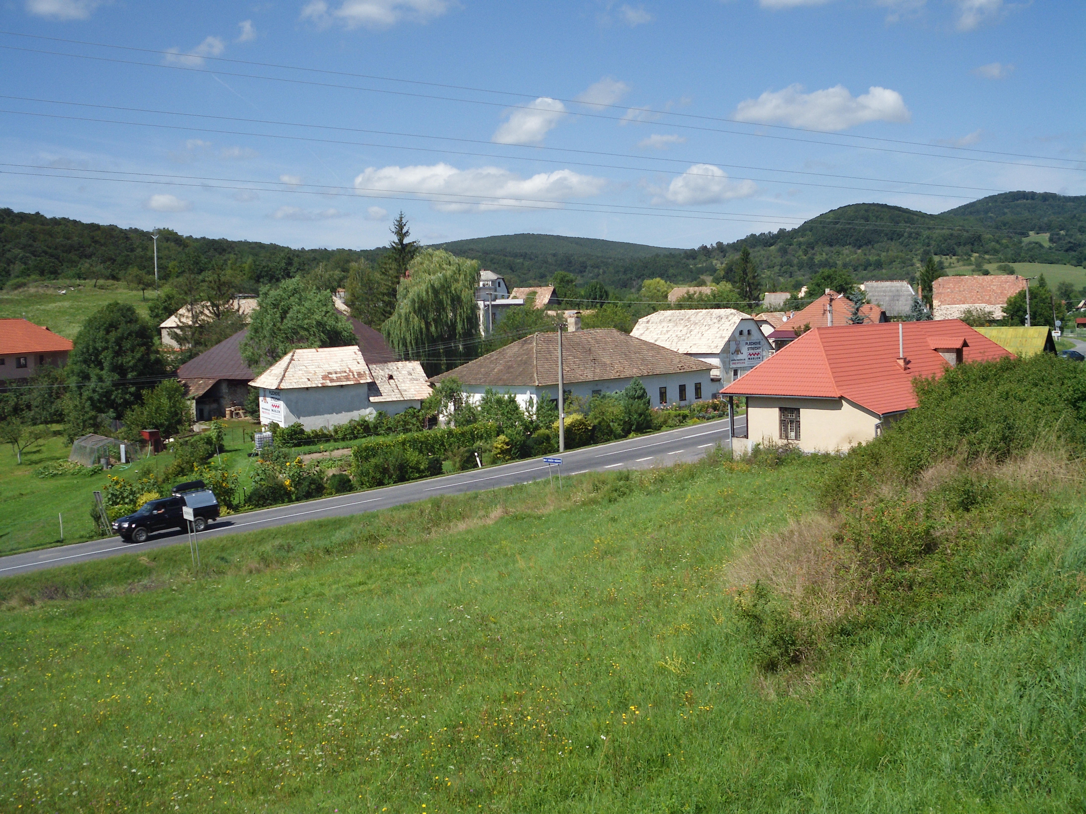 Devičie village in Slovakia, as seen from a charter train.